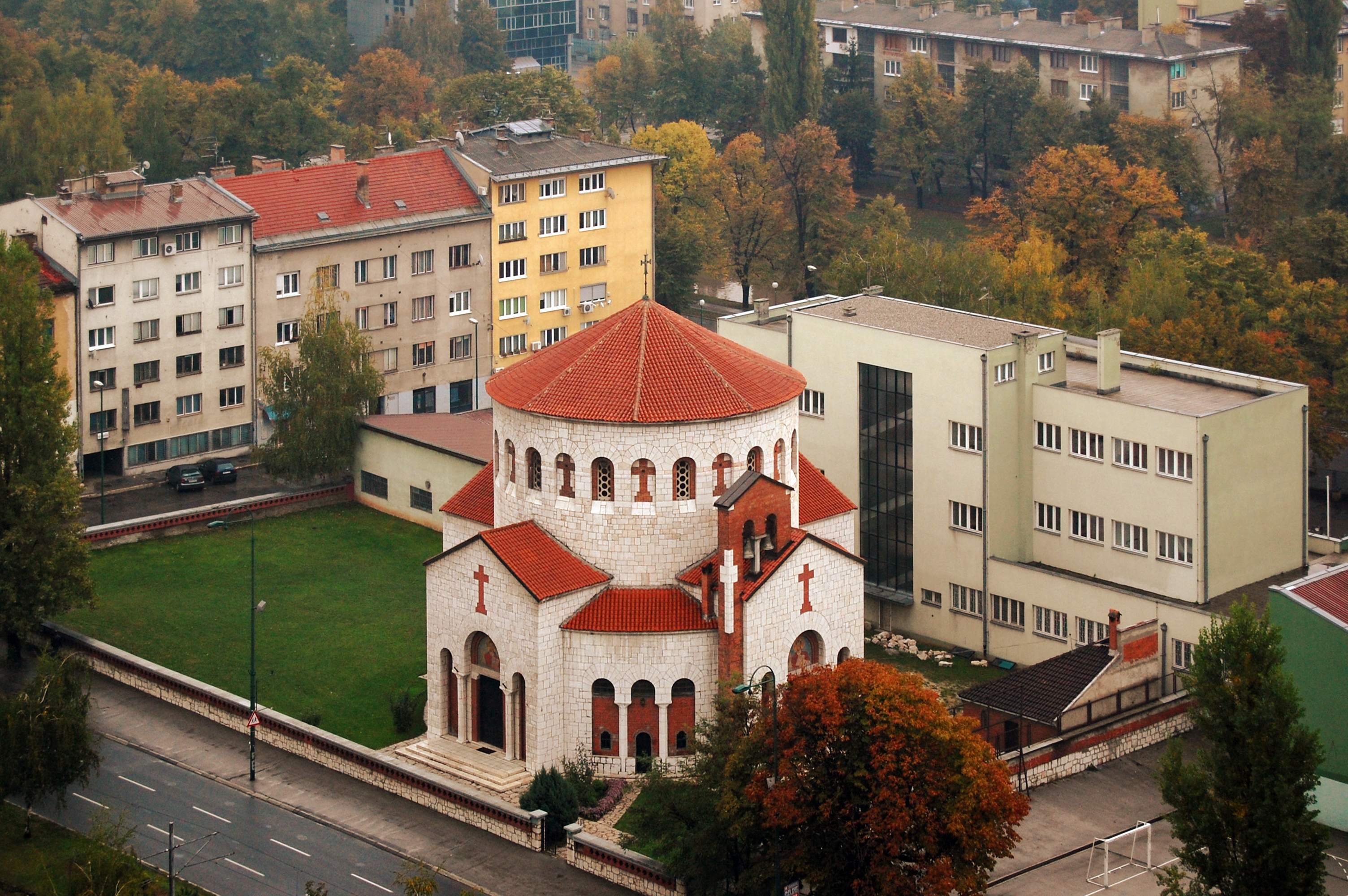 Church of the Holy Transfiguration in Sarajevo